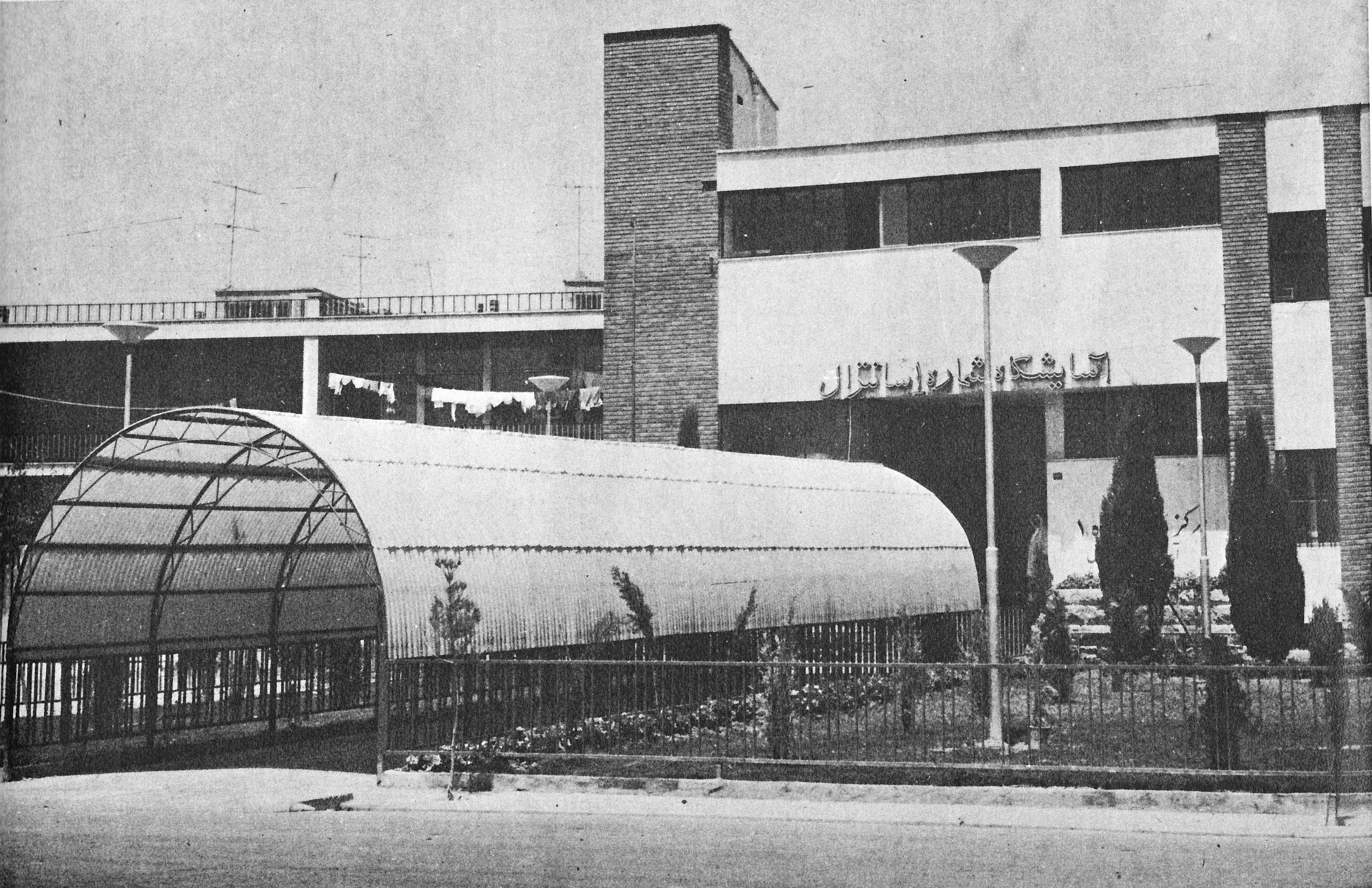 Central rehabilitation clinic for cancer patients, Tehran, Iran, 1970